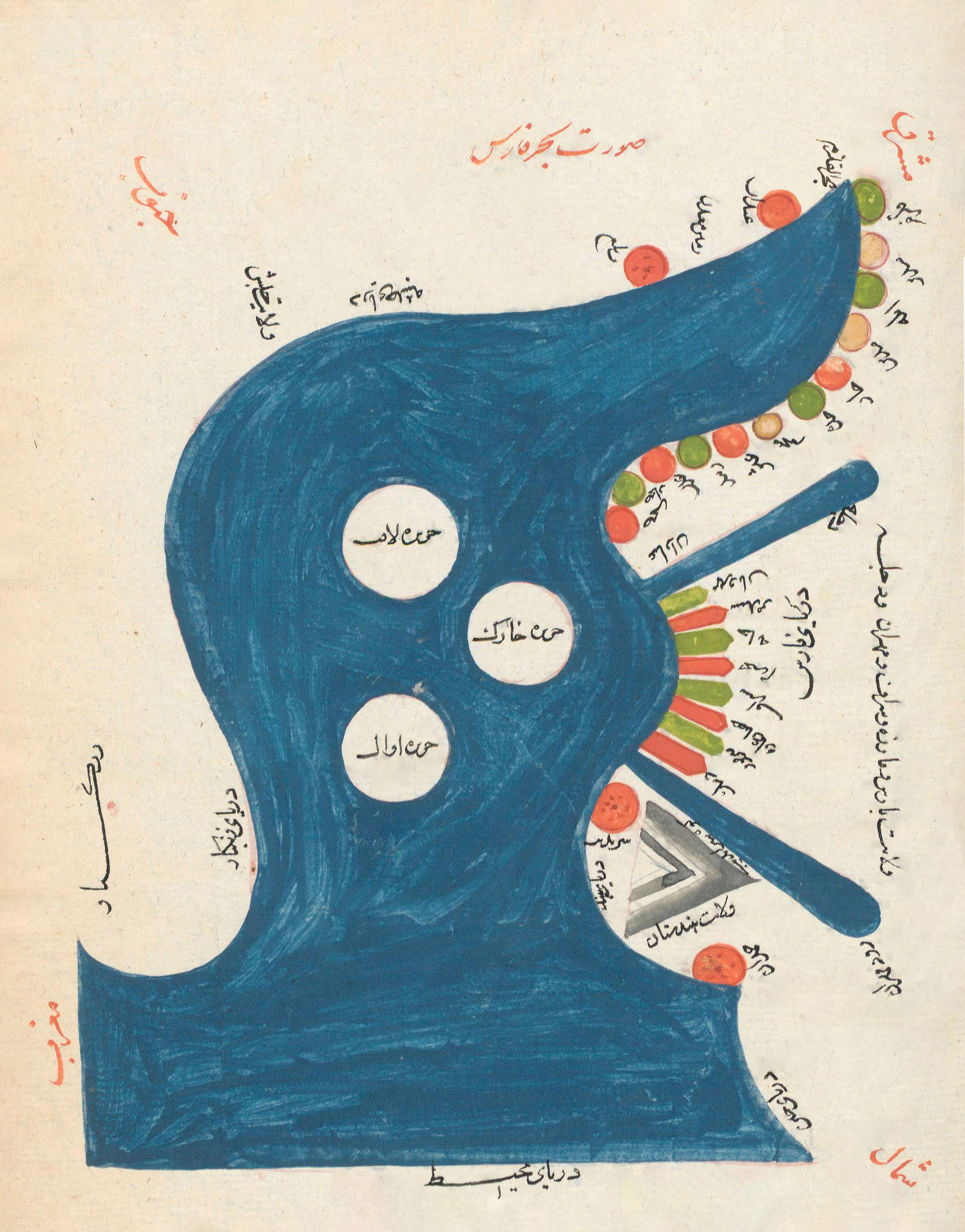 Map of the Persian Gulf from a 8-9th century AH (14-15th century AD) Persian translation by al-Istakhri at the Central Library, Tehran University.